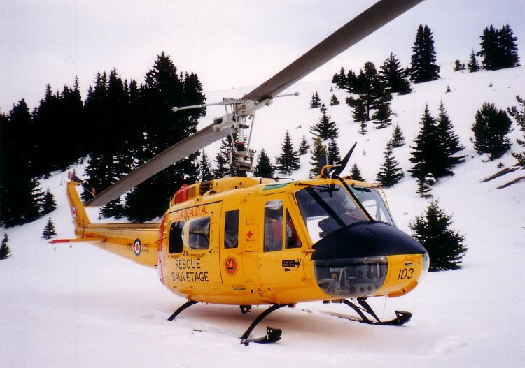 A Canadian CH-118 Iroquois helicopter (118103) from 417 Squadron (CFB Cold Lake) in the Rocky Mountains of British Columbia, January 8, 1992.